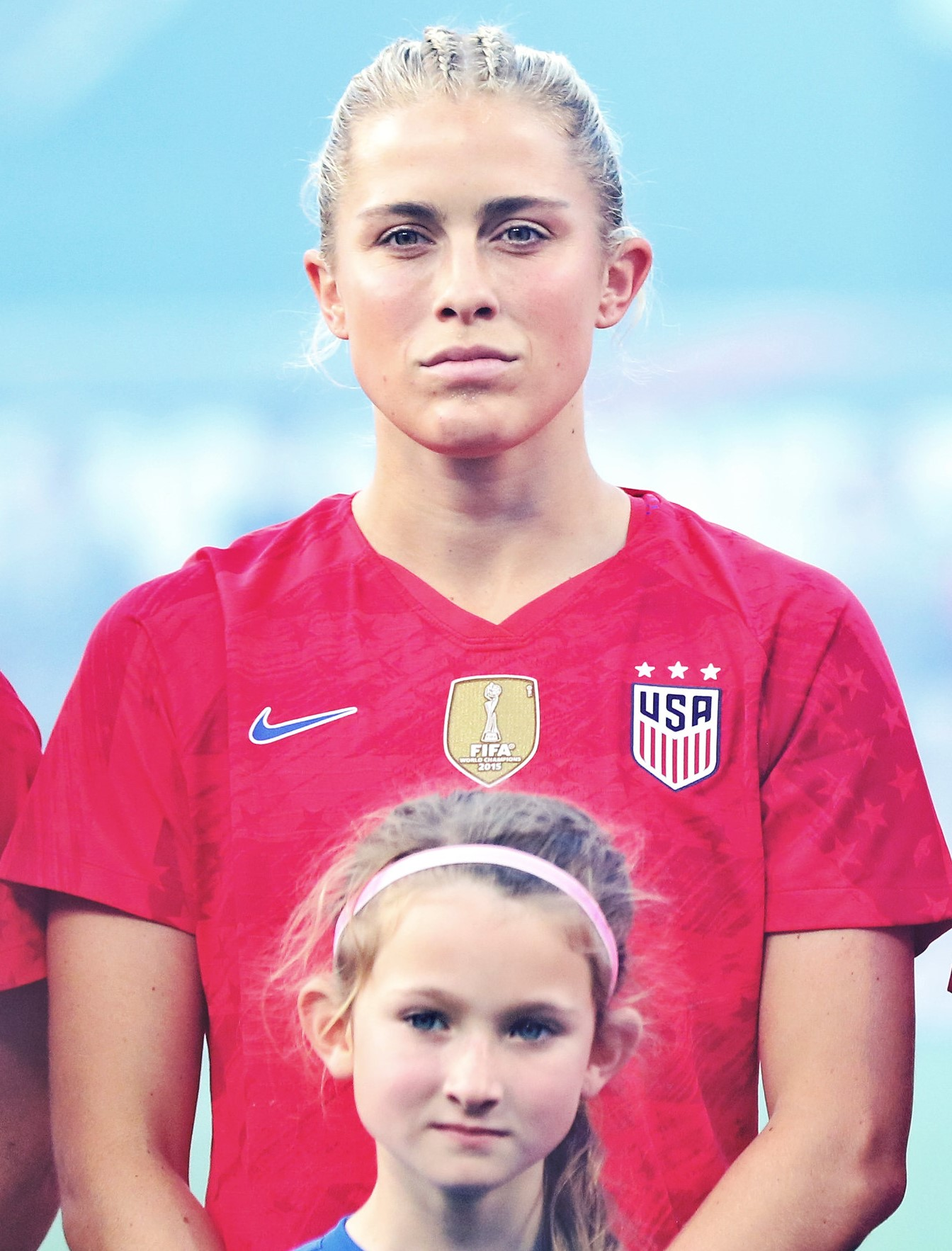 Abby Dahlkemper before the USWNT friendly against New Zealand on May 16, 2019.